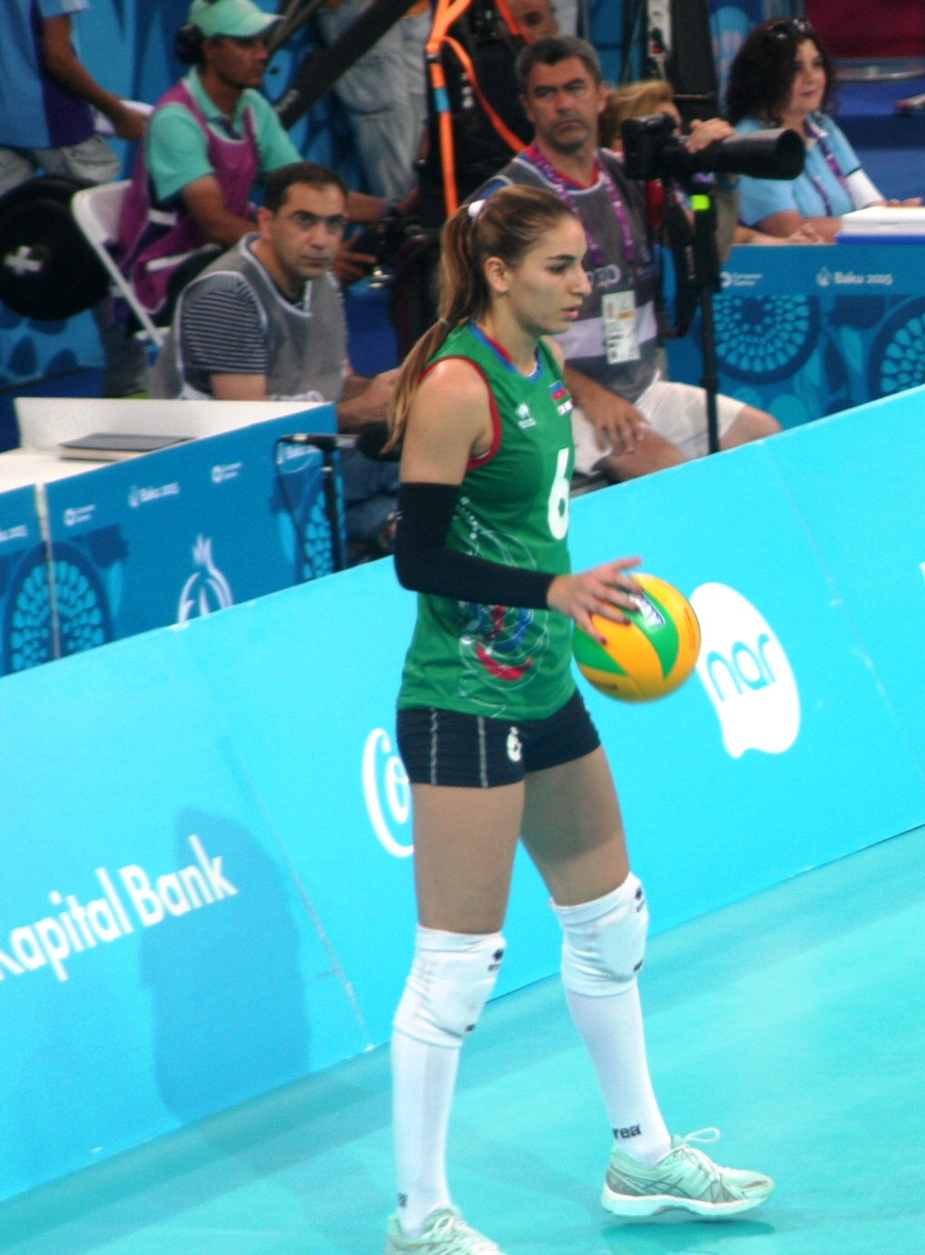 Ayshan Abdulazimova at the 2015 European Games